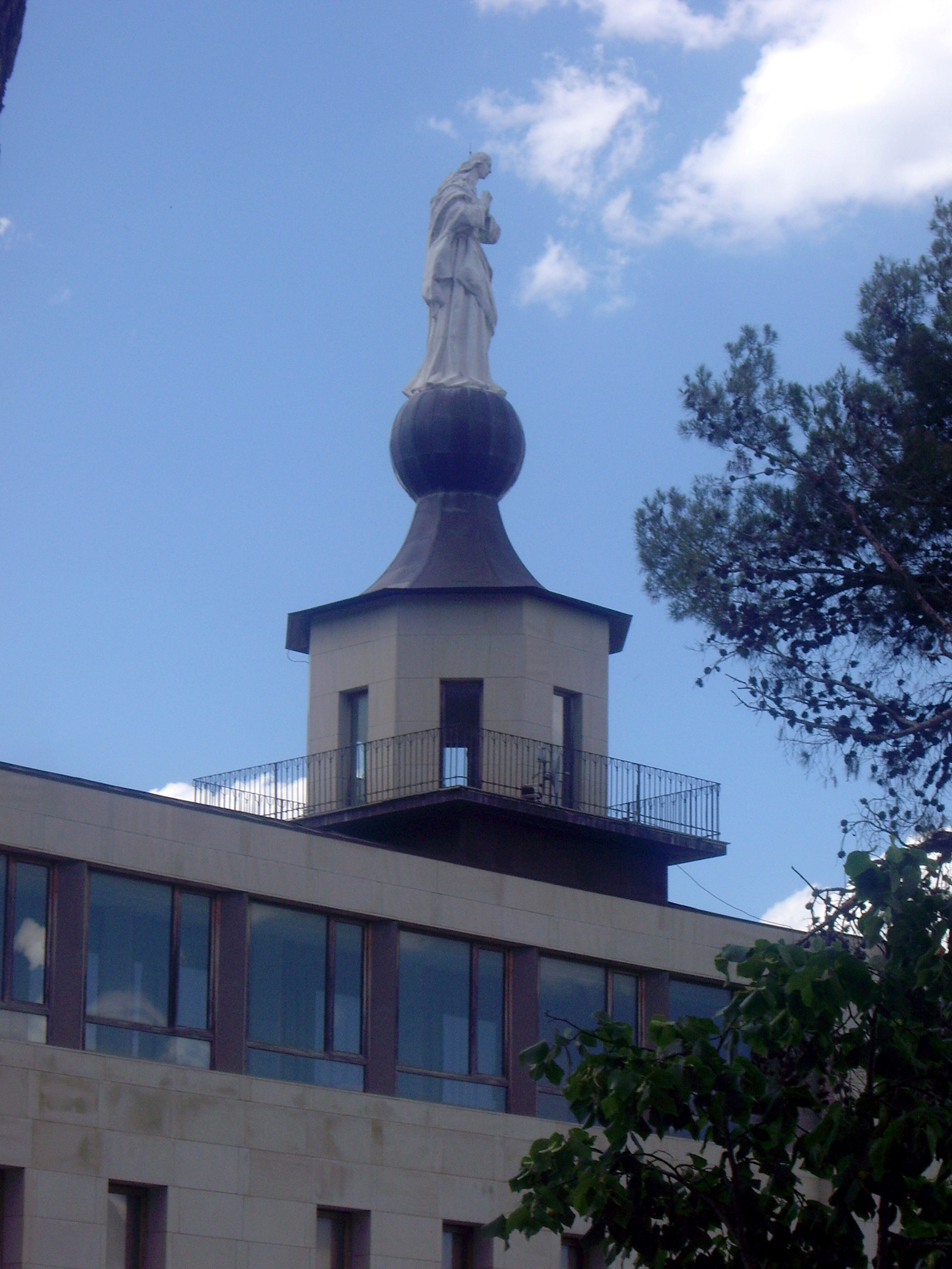 Verge dels Lliris. Peresejo's Sculpture.